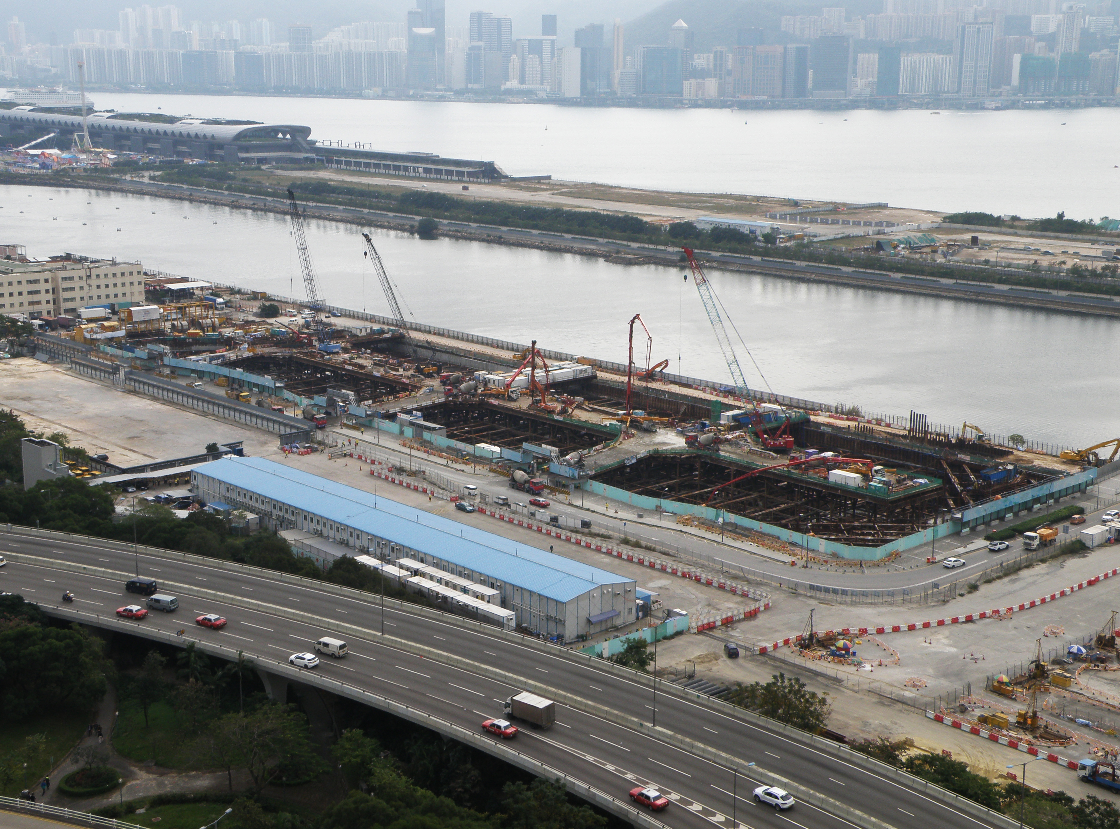 Hong Kong Children's Hospital in Kai Tak, Hong Kong.